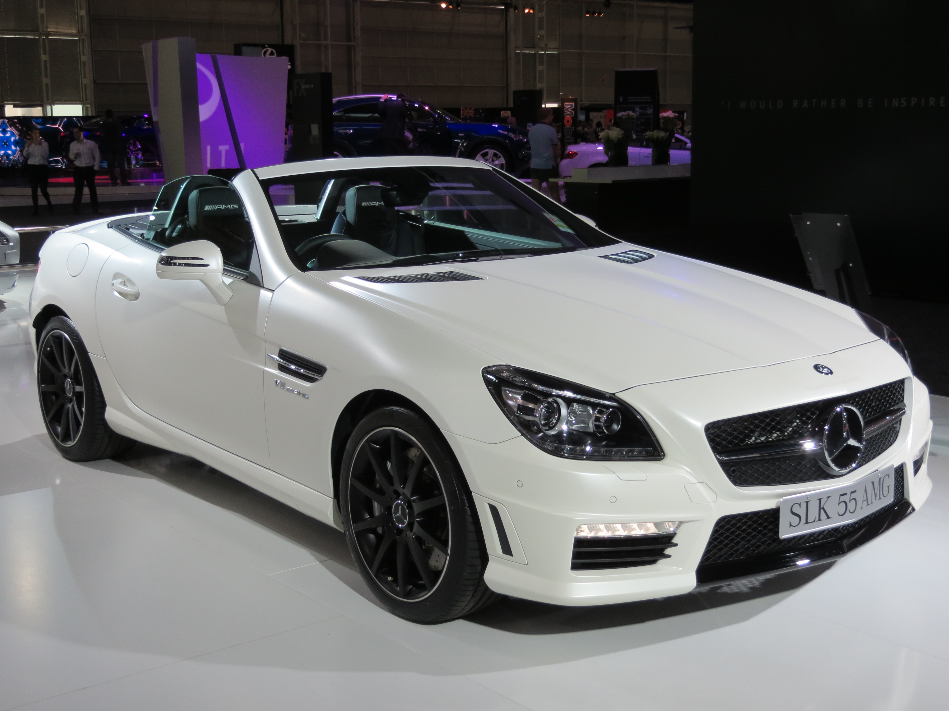 2012 Mercedes-Benz SLK 55 AMG (R 172) roadster. Photographed at the 2012 Australian International Motor Show, Sydney, New South Wales, Australia.